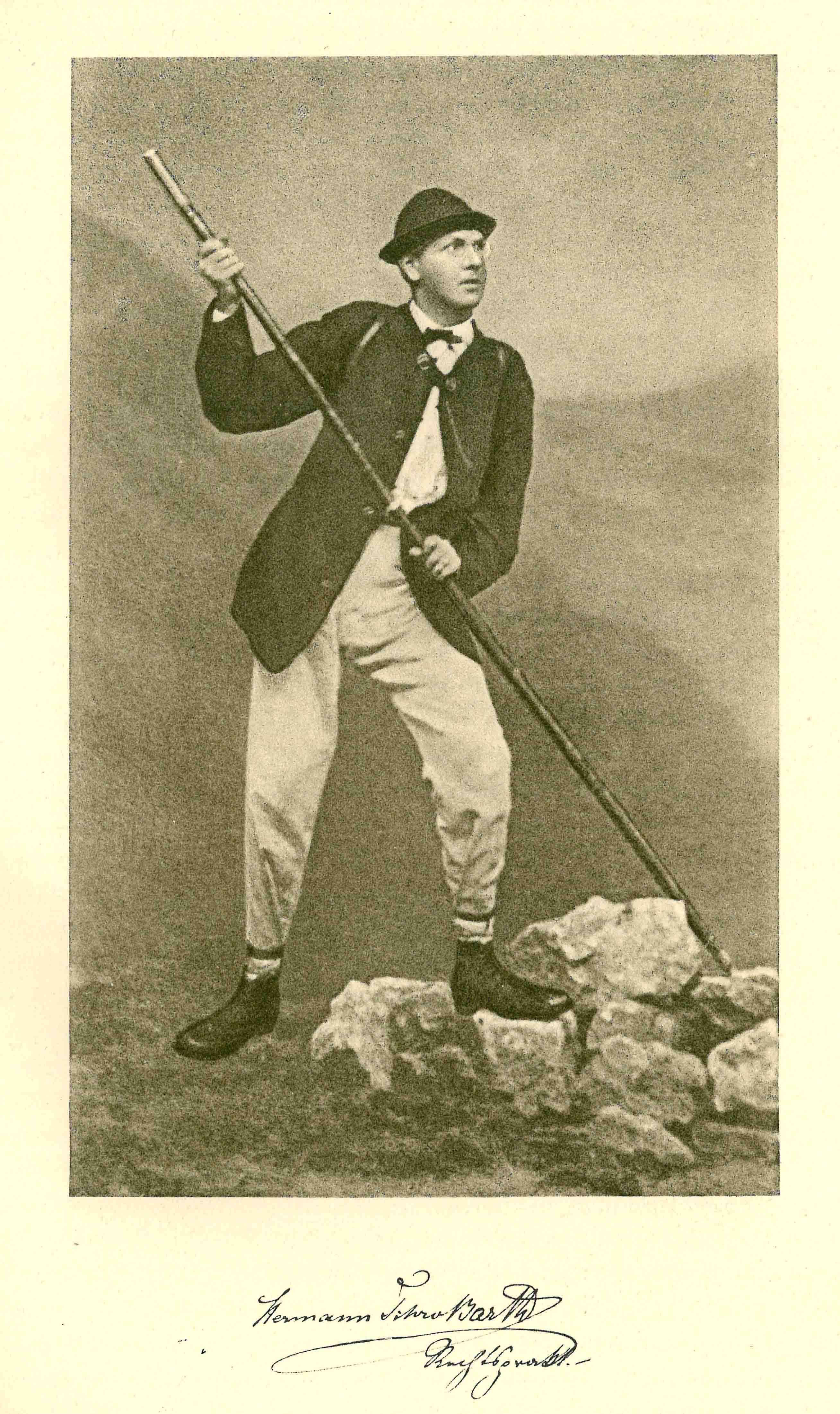 The Alpinist Hermann von Barth (1845-1876)